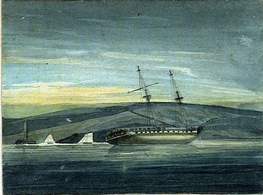 Watercolour. The artist was captain of the brig HMS Merlin, which was accompanying Shannon when she grounded.